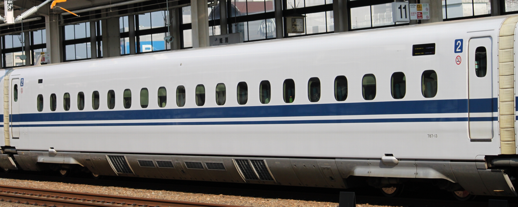 Shinkansen series N700(787-13) in Himeji Station